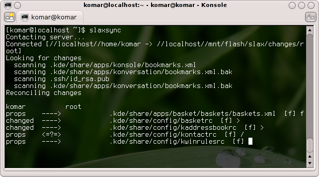 Command line interface of Unison file synchronizer